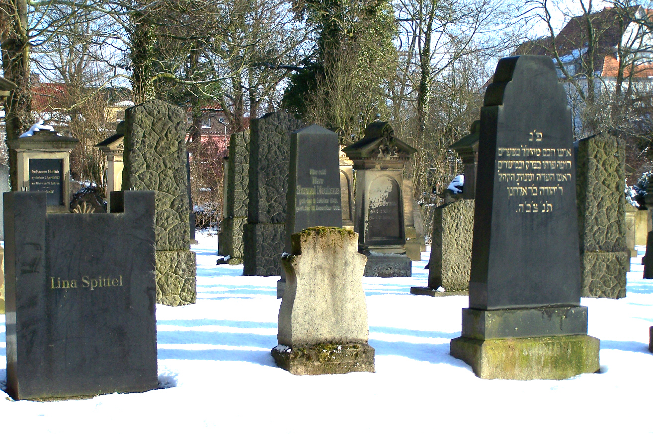 At the Hauptfriedhof in Eisenach, jewish cemetery part.